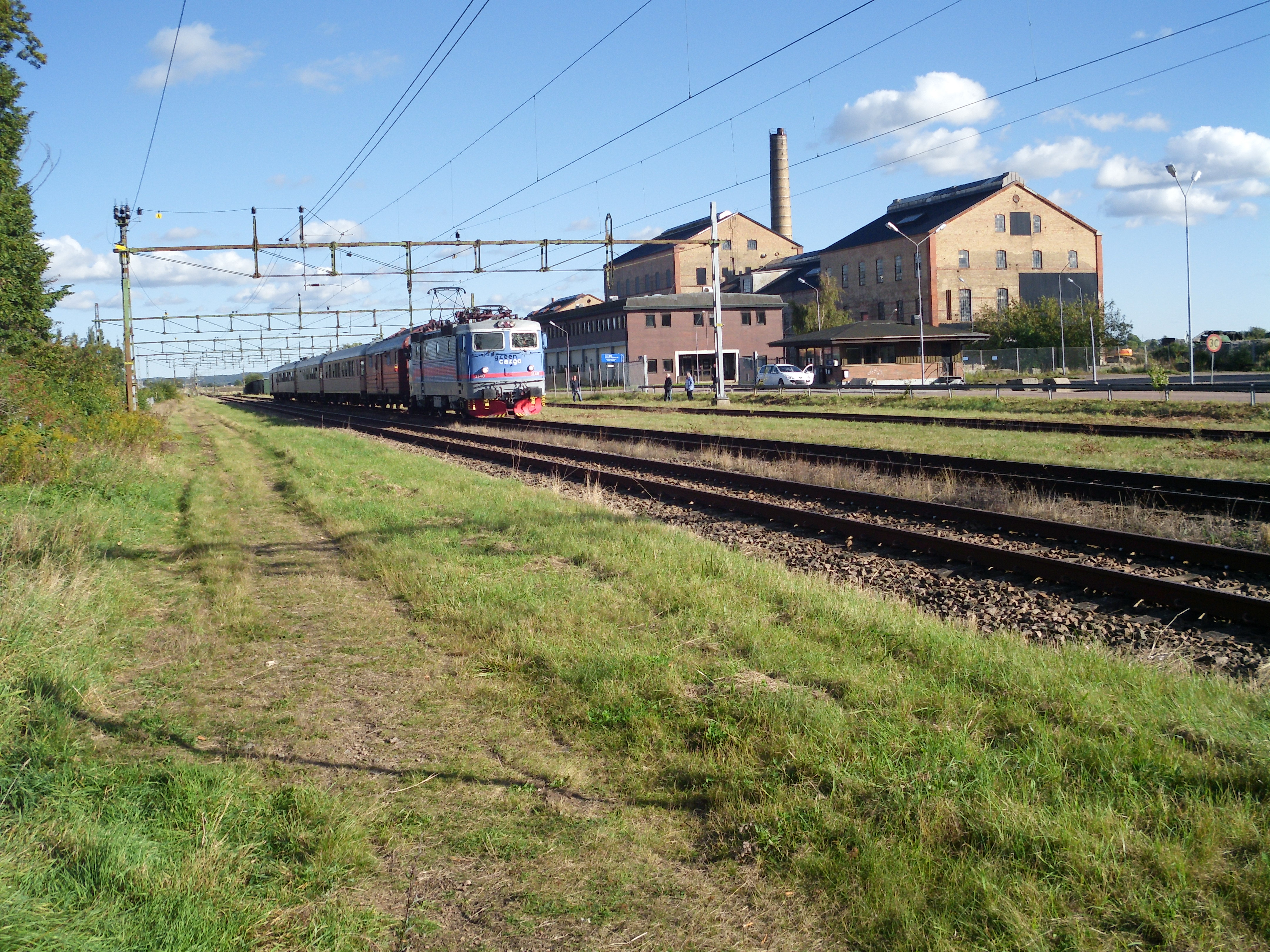 Tourist train pulled by a Green Cargo engine at a freight station in Hasslarp, Sweden, on Åstorp–Kattarp route. It is heading towards Kattarp. A former sugar factory is in the background.